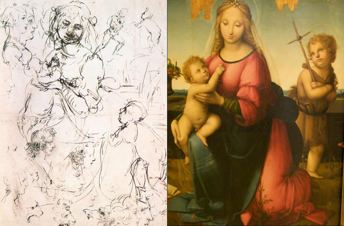 Madonna by Brescianino held in Naples based on Leonardos sketch, held in Royal Library, Windsor